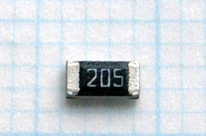 Chip resistor on the 1mm section paper.